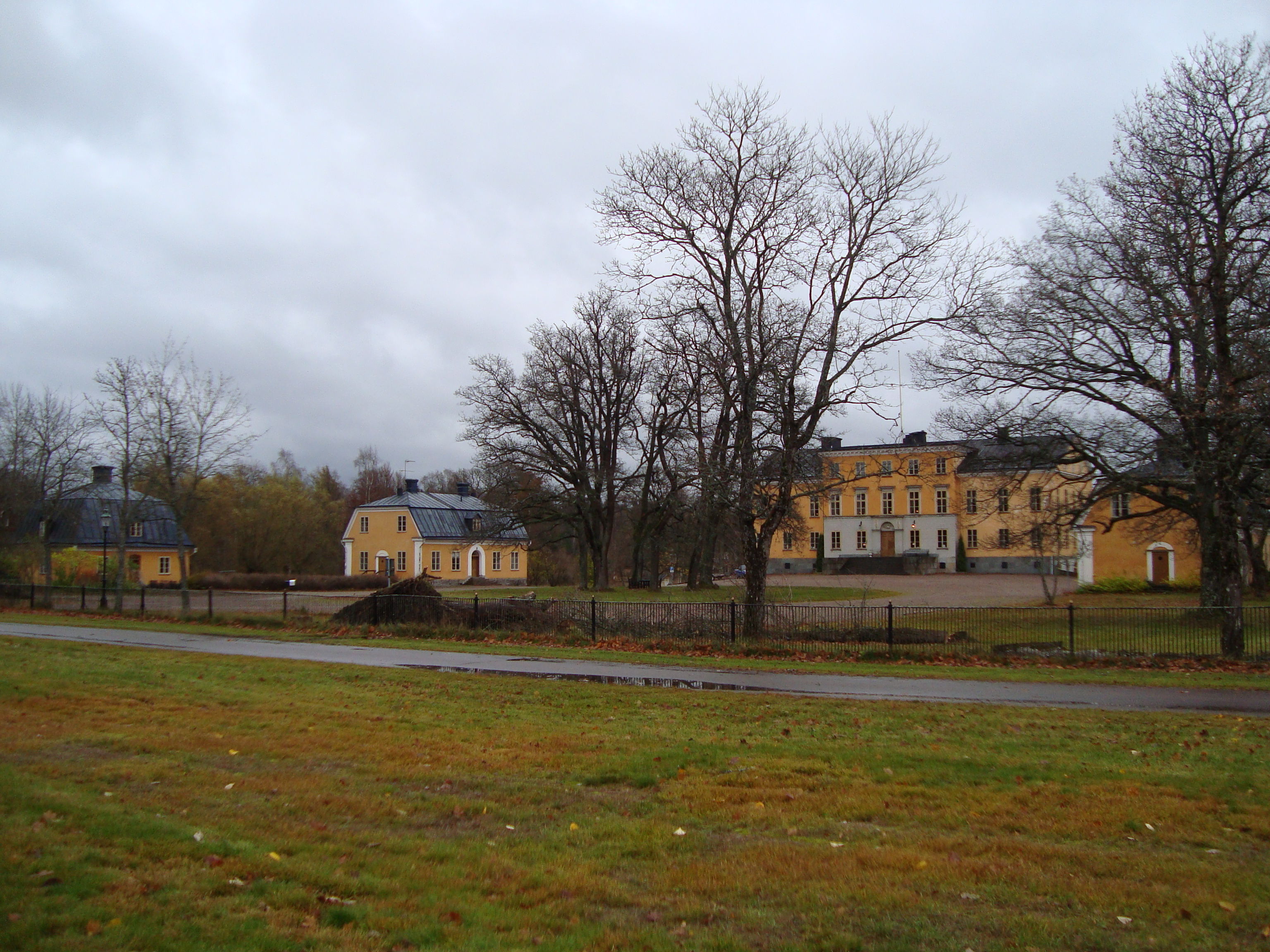 Mansion of Garpenberg, Hedemora municipality, Sweden